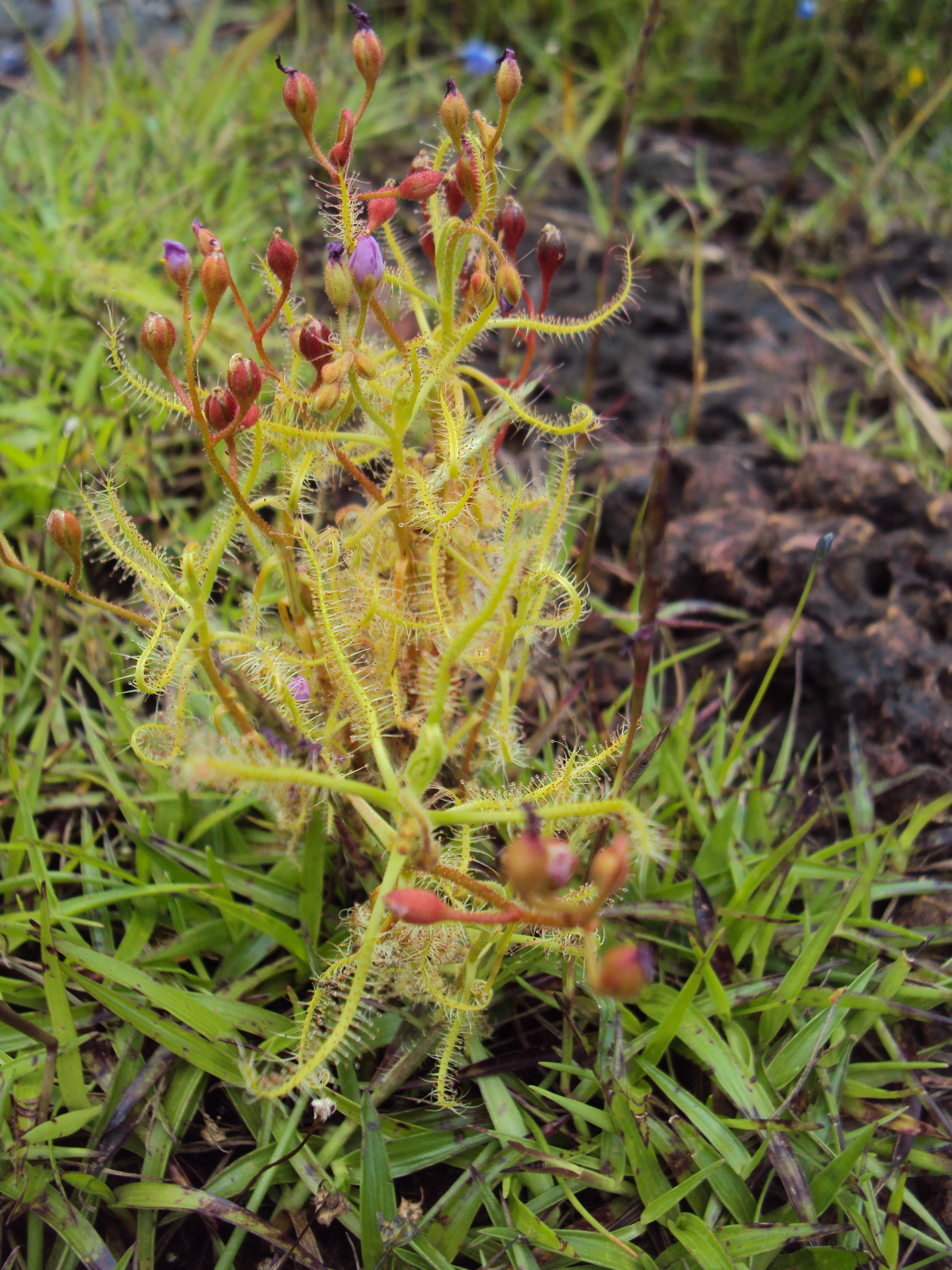 Drosera indica